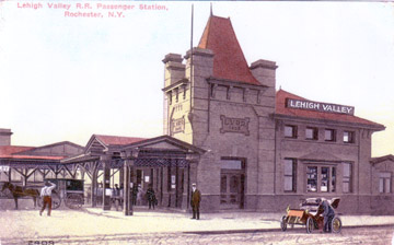 Postcard showing LVRR depot in downtown Rochester built in 1905.